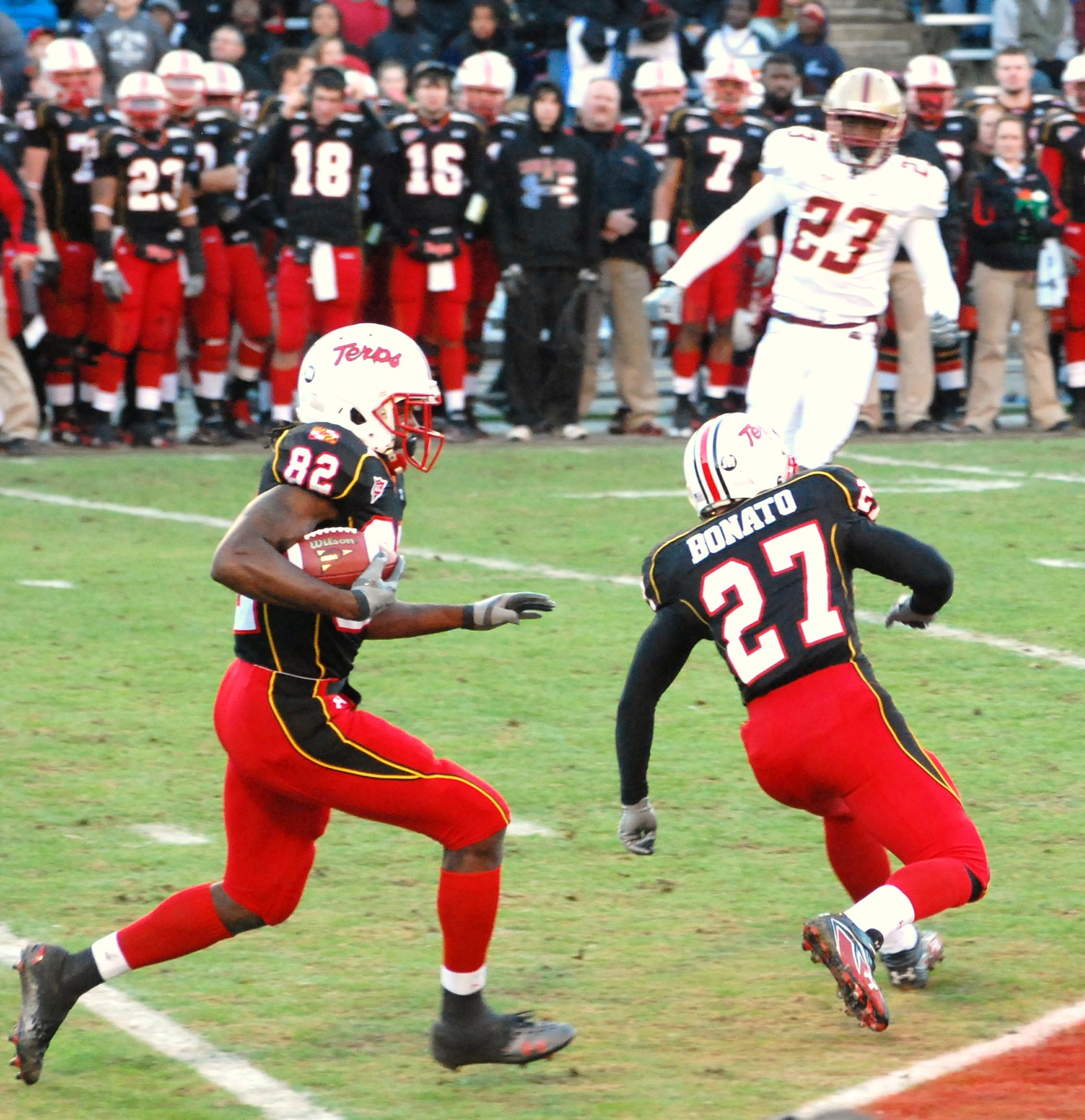 Torrey Smith (82), wide receiver of the University of Maryland Terrapins running behind running back Dan Bonato against Boston College in 2009.